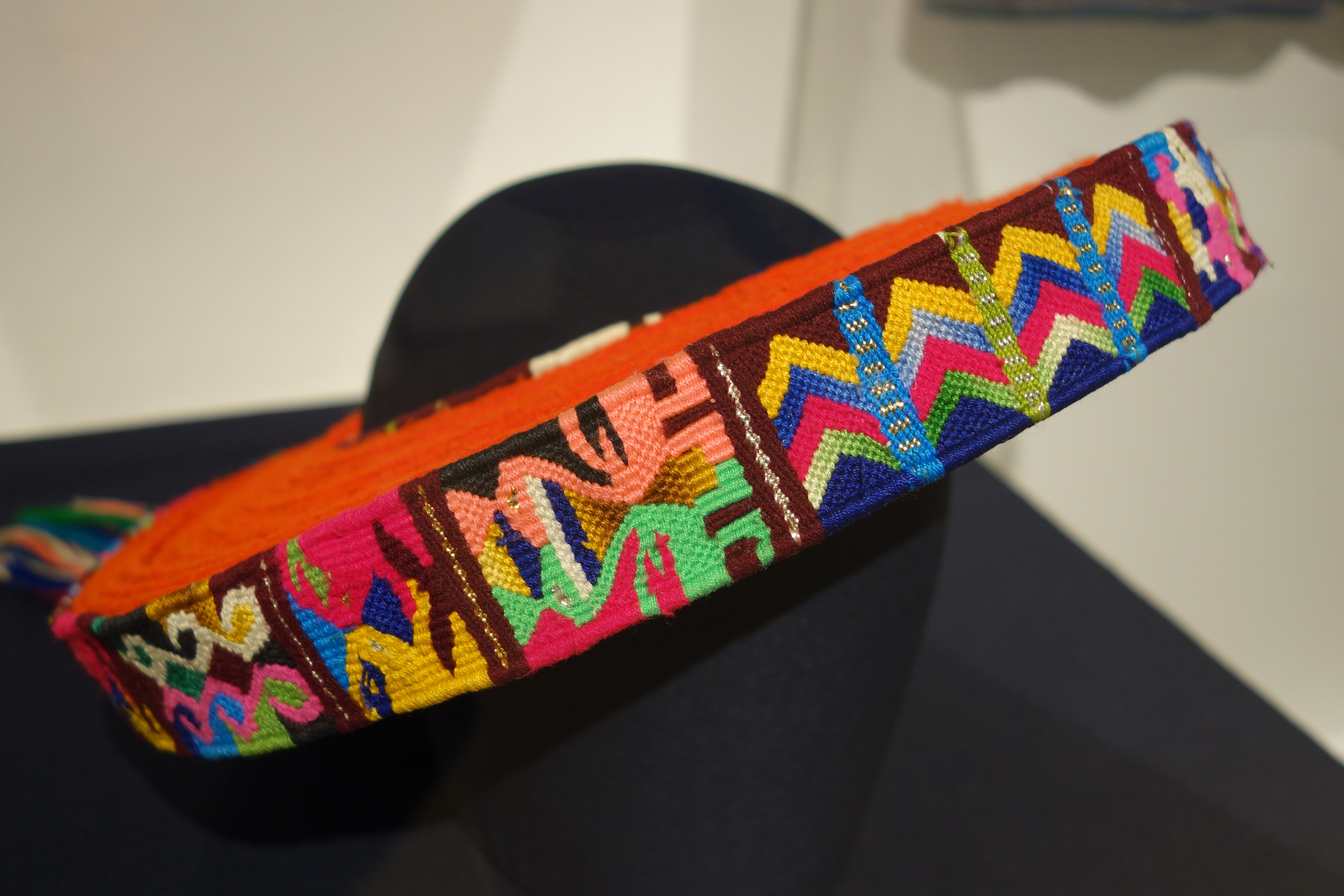 Exhibit in the Textile Museum of Canada, 55 Centre Avenue, Toronto, Ontario, Canada.